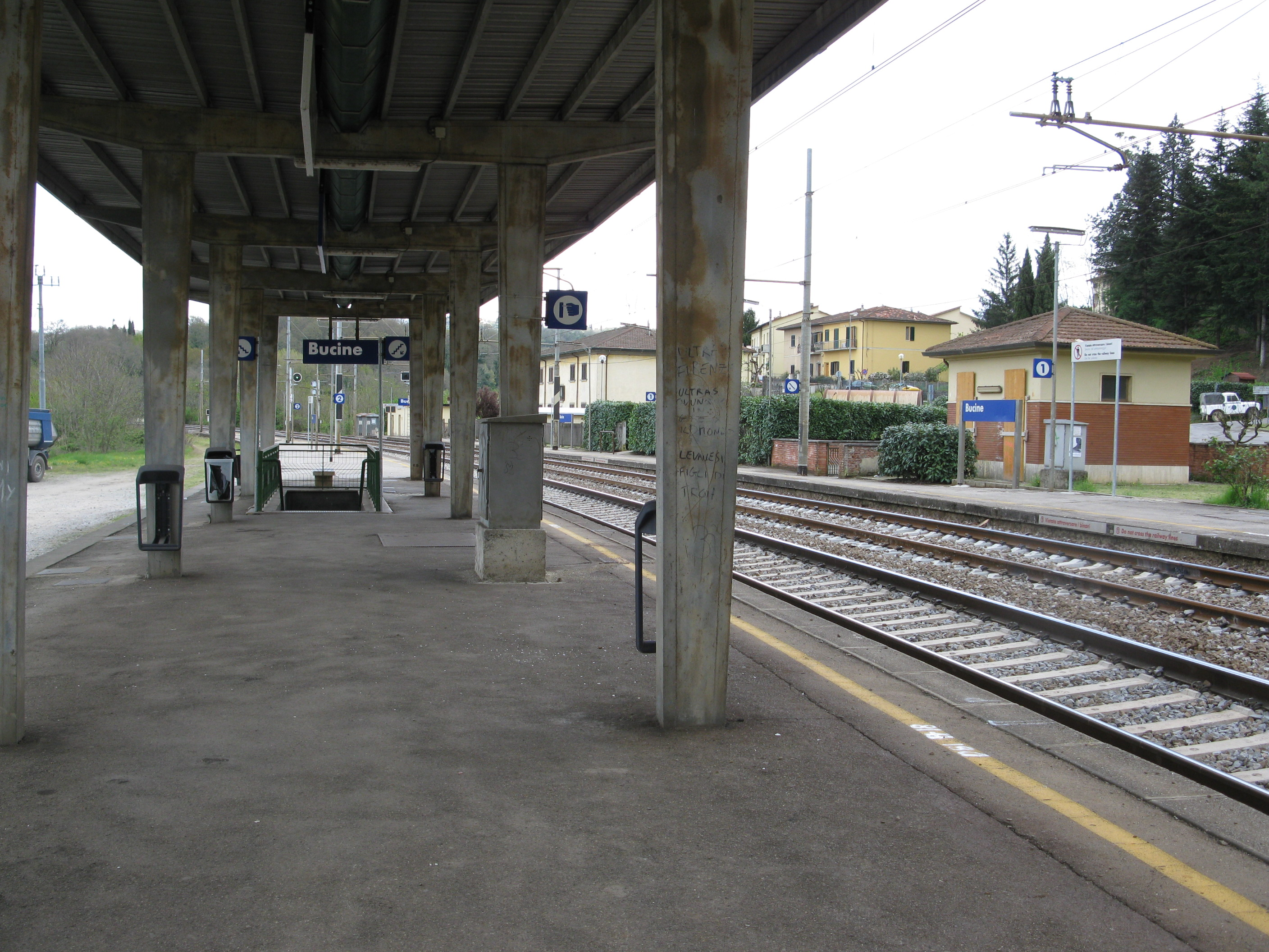 Bucine railway station